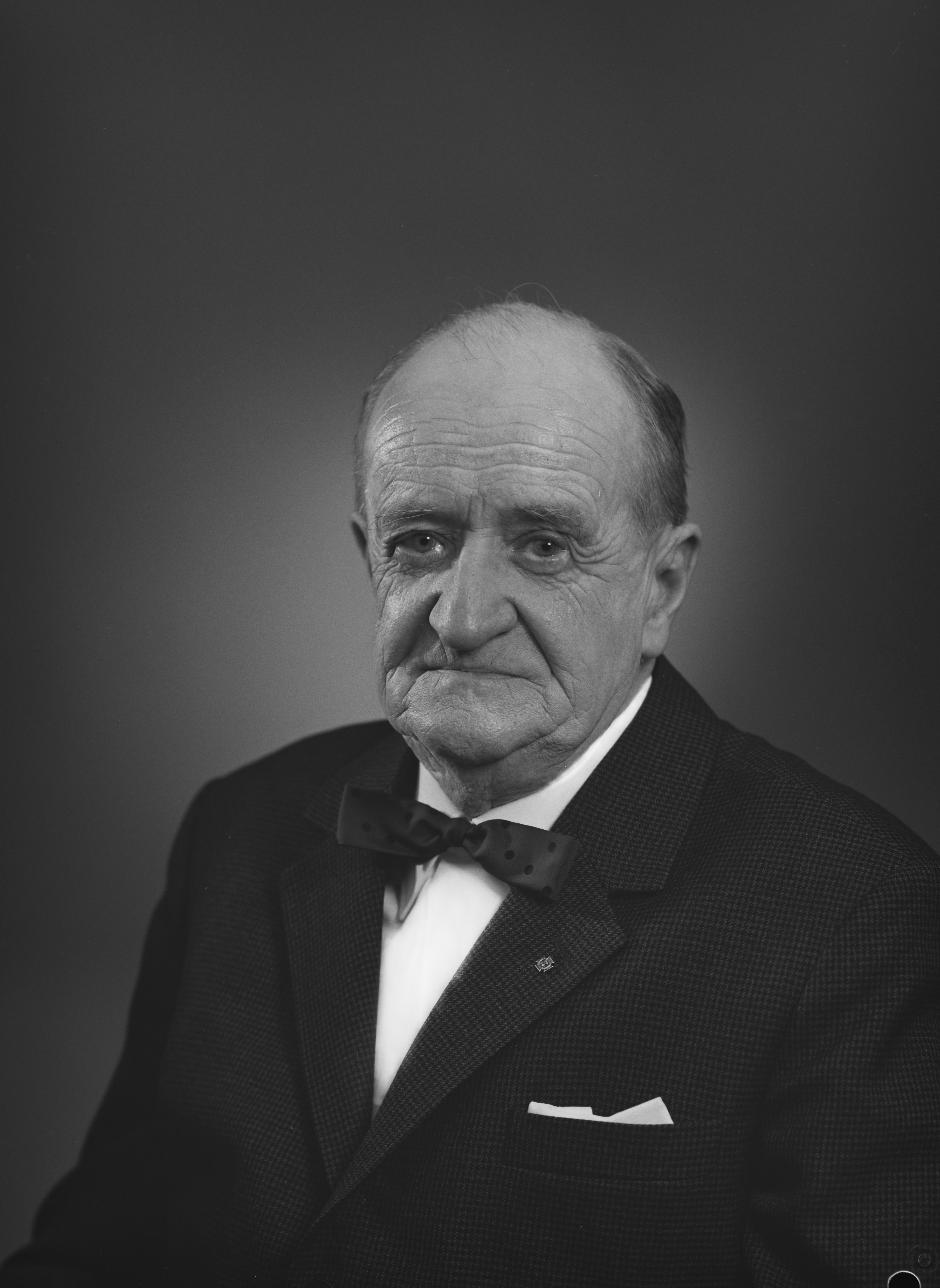 Photograph of the Finnish lieutenant-colonel Erik Voss (1894–1981)